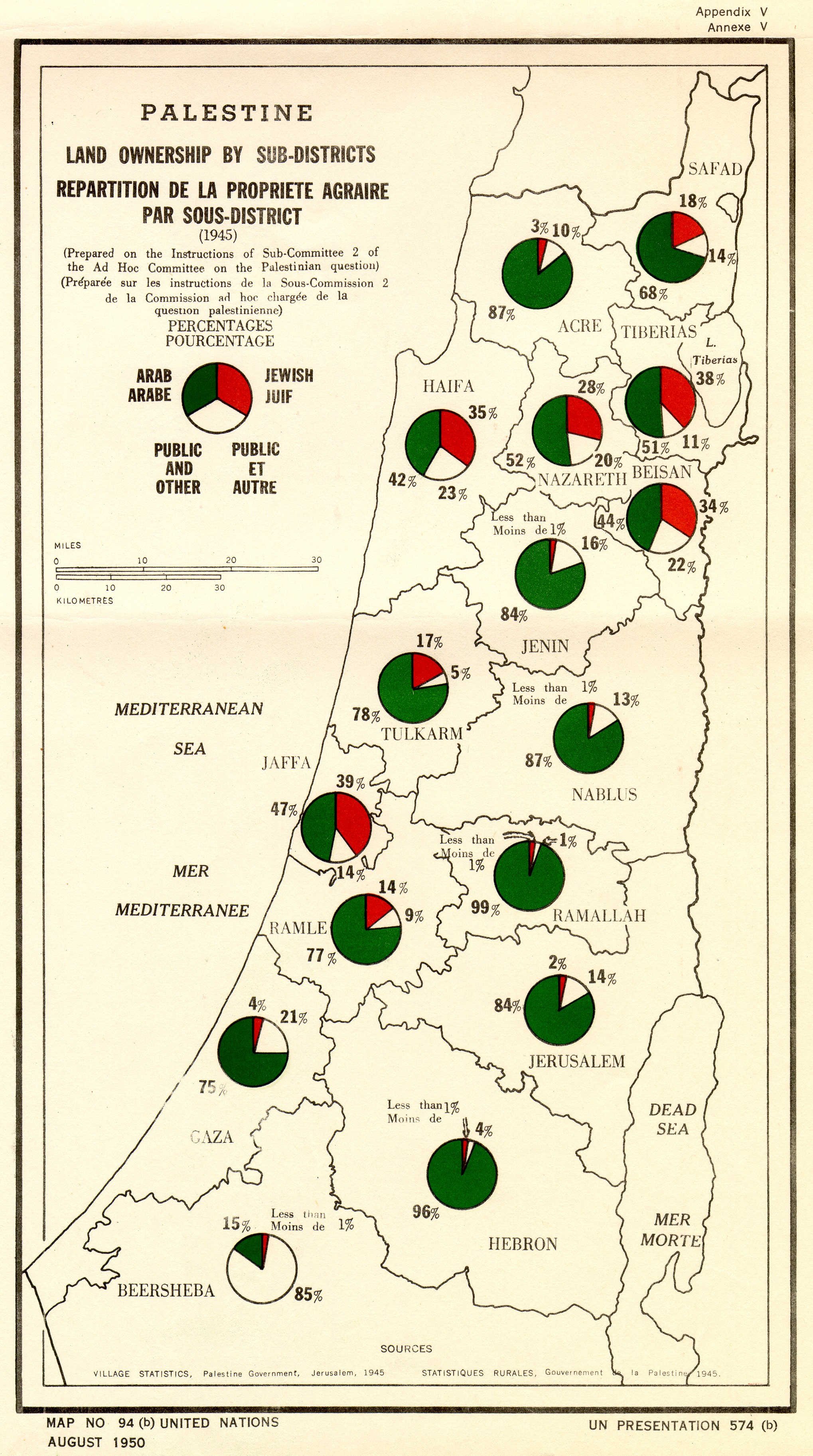 Palestine: Land ownership by sub-district (1945) United Nations Map no. 94(b), August 1950